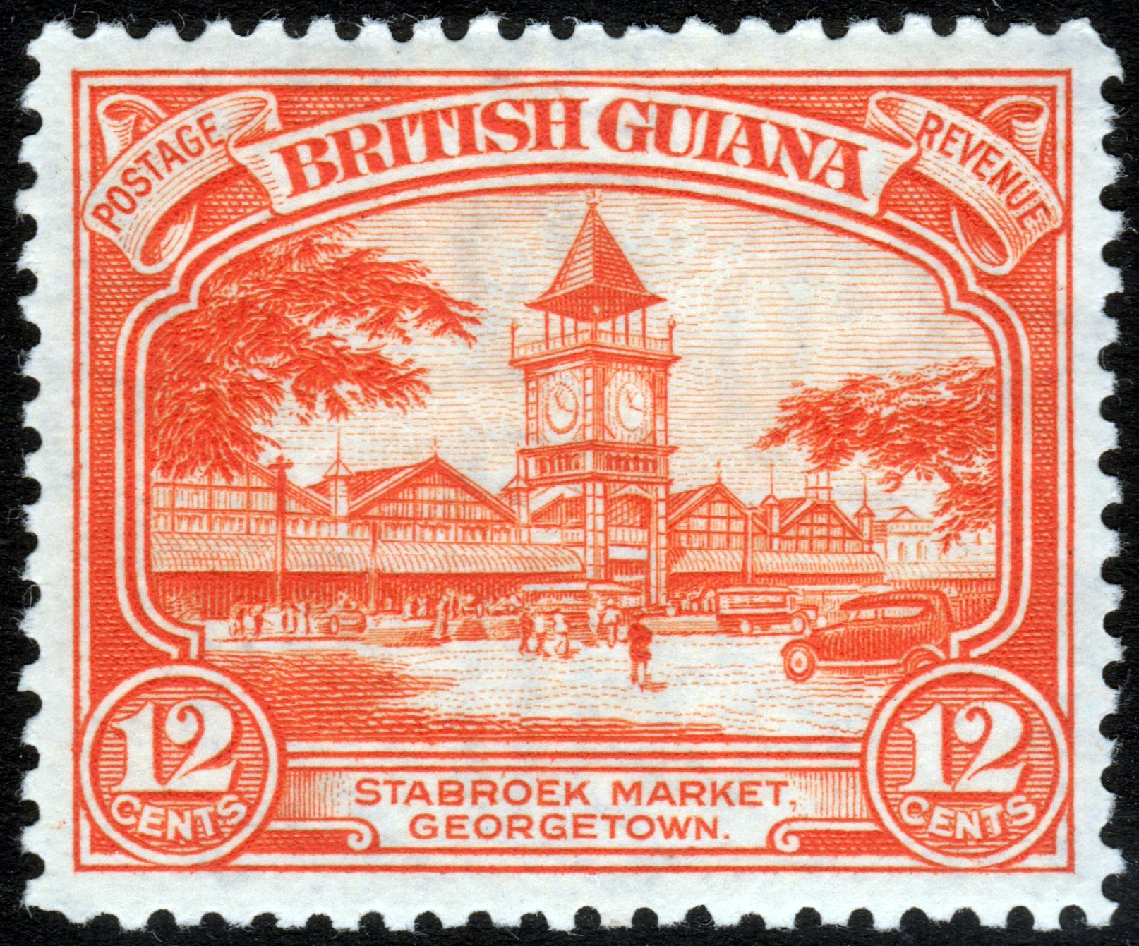 British Guiana 1934 12c stamp Stabroek Market Georgetown